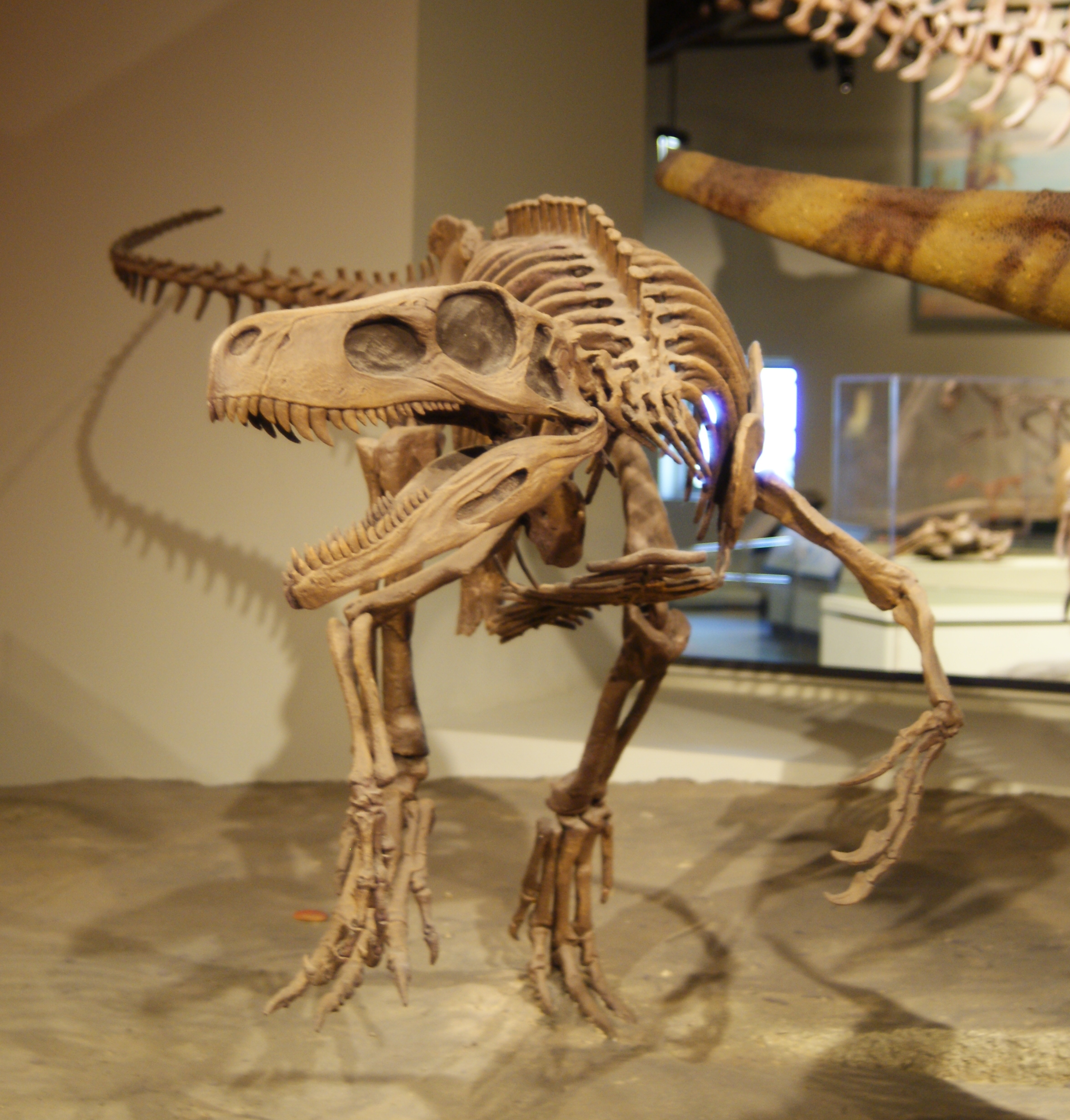 Herrerasaurus ischigualastensis at the Evolving Planet Exhibit at the Field Museum, Chicago, IL.